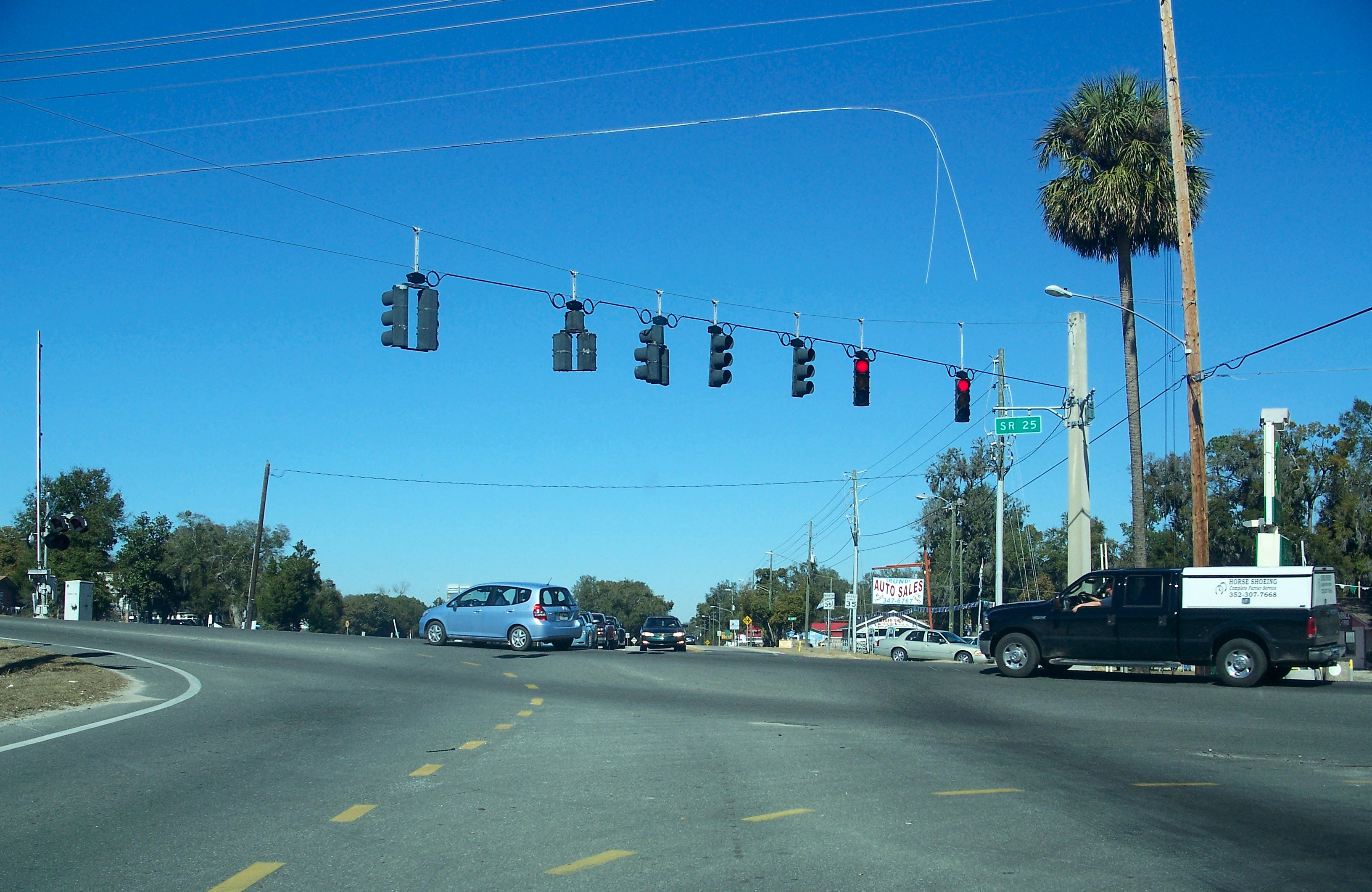 The intersection of Florida State Road 35, Florida State Road 25 and Marion County Road 25, looking north.